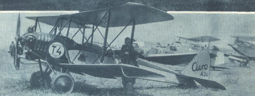 Aircraft Aero A.34 with Walter Vega engine in the contest "Challenge International de Tourisme", 1929. Behind: BFW M.23b and two DH 60G Gipsy Moth.